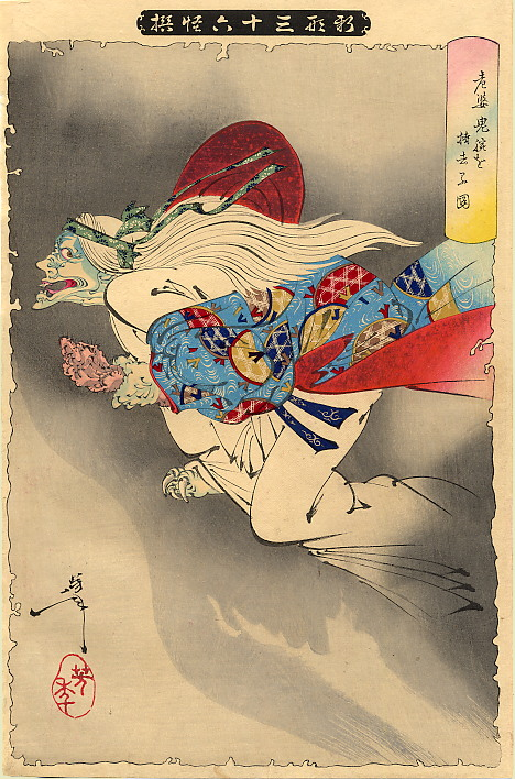 From the Thirty-six Ghosts series.